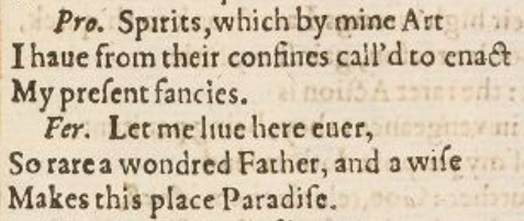 This is an exchange of dialogue between Prospero and Ferdinand in Act V of "The Tempest" as it was printed in the First Folio in 1623